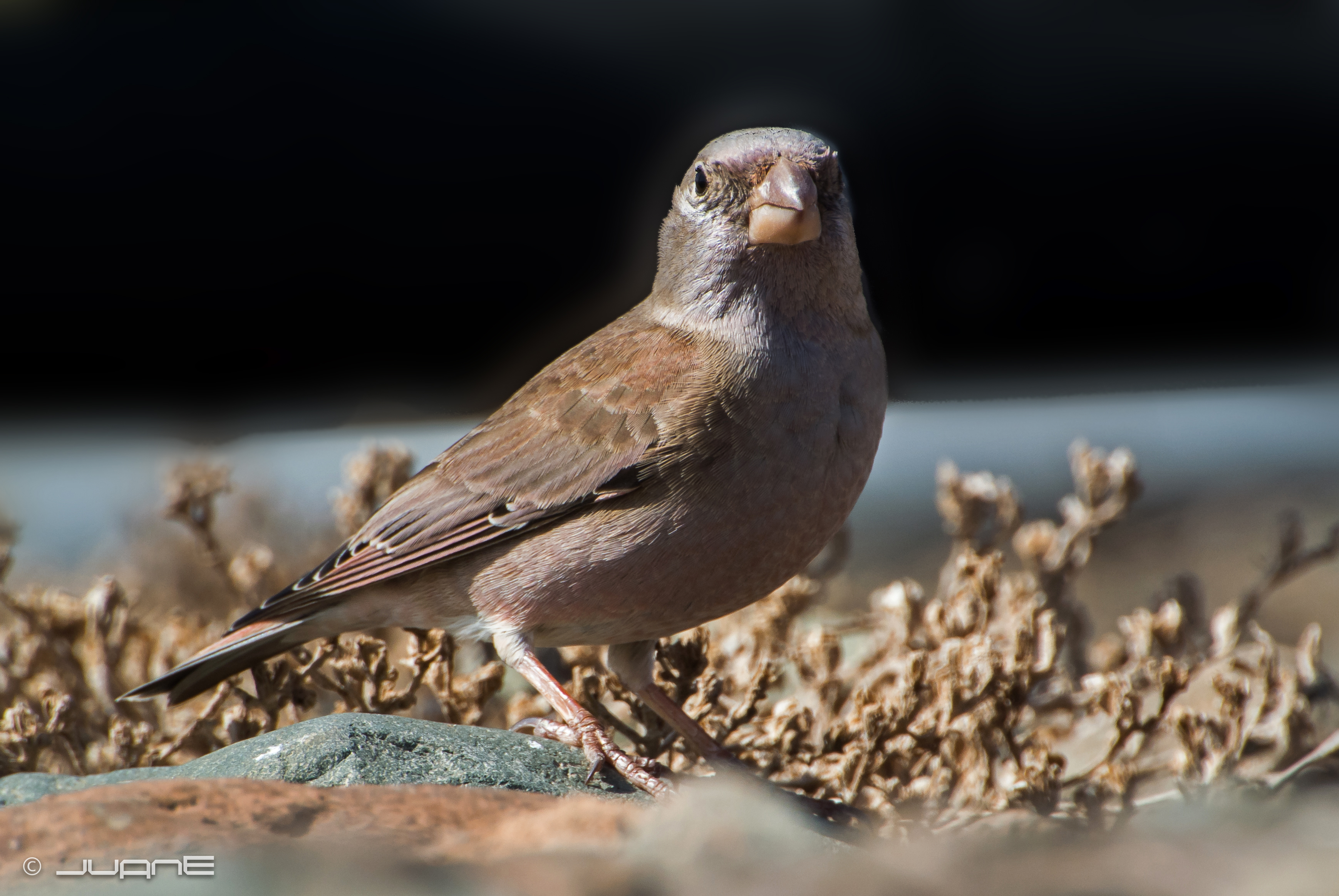 Camachuelo trompetero / Trumpeter Finch Bucanetes githagineus amantum, El Castillo del Romeral, Gran Canaria, Canary Islands, Spain